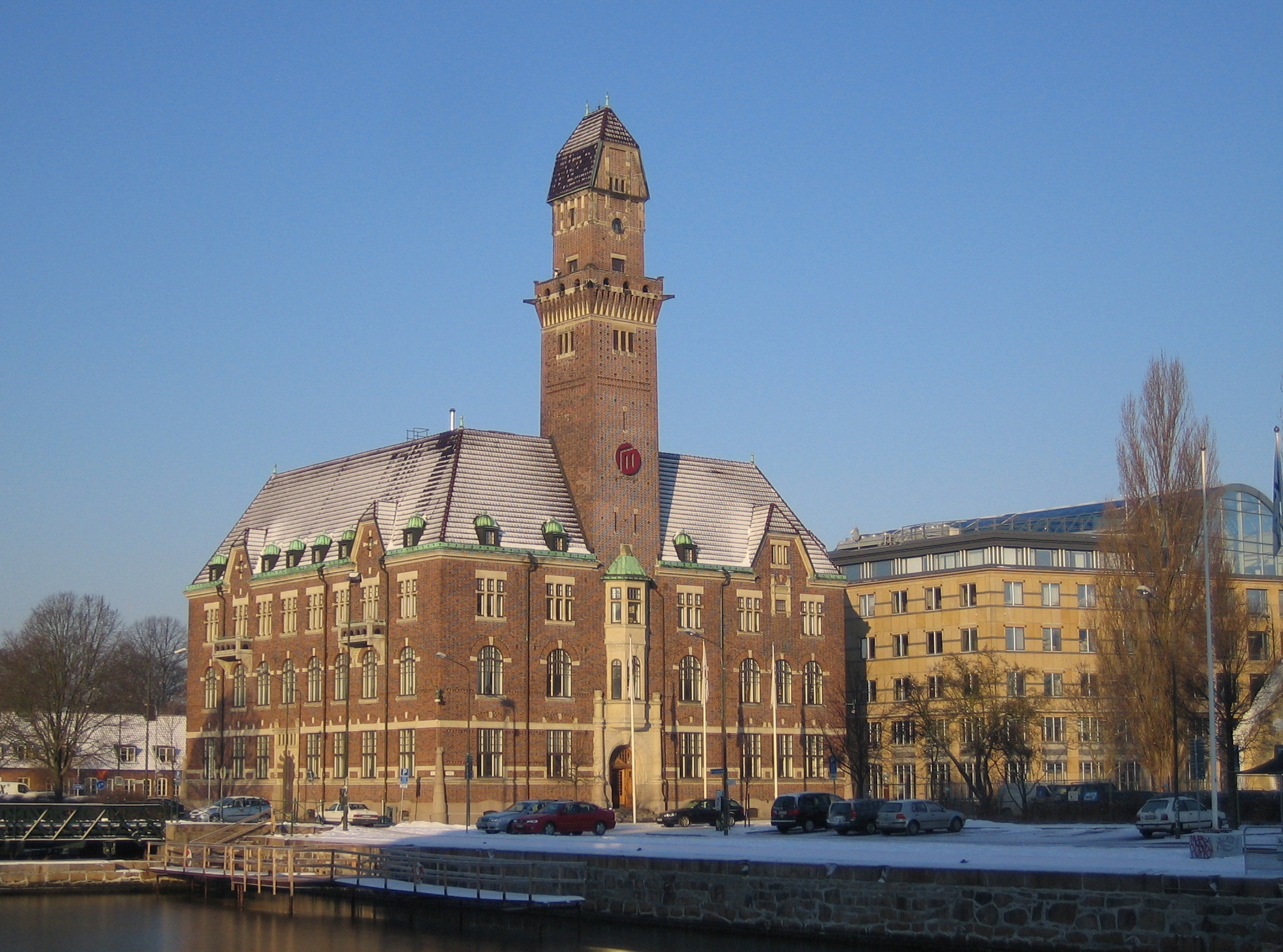 Malmö högskola main building. Originally the harbour office.